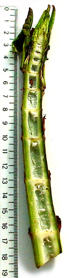 young Fallopia japonica (cutted)